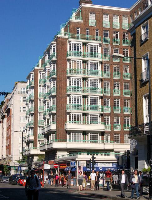 Flats at junction of Melcombe Street and Gloucester Place